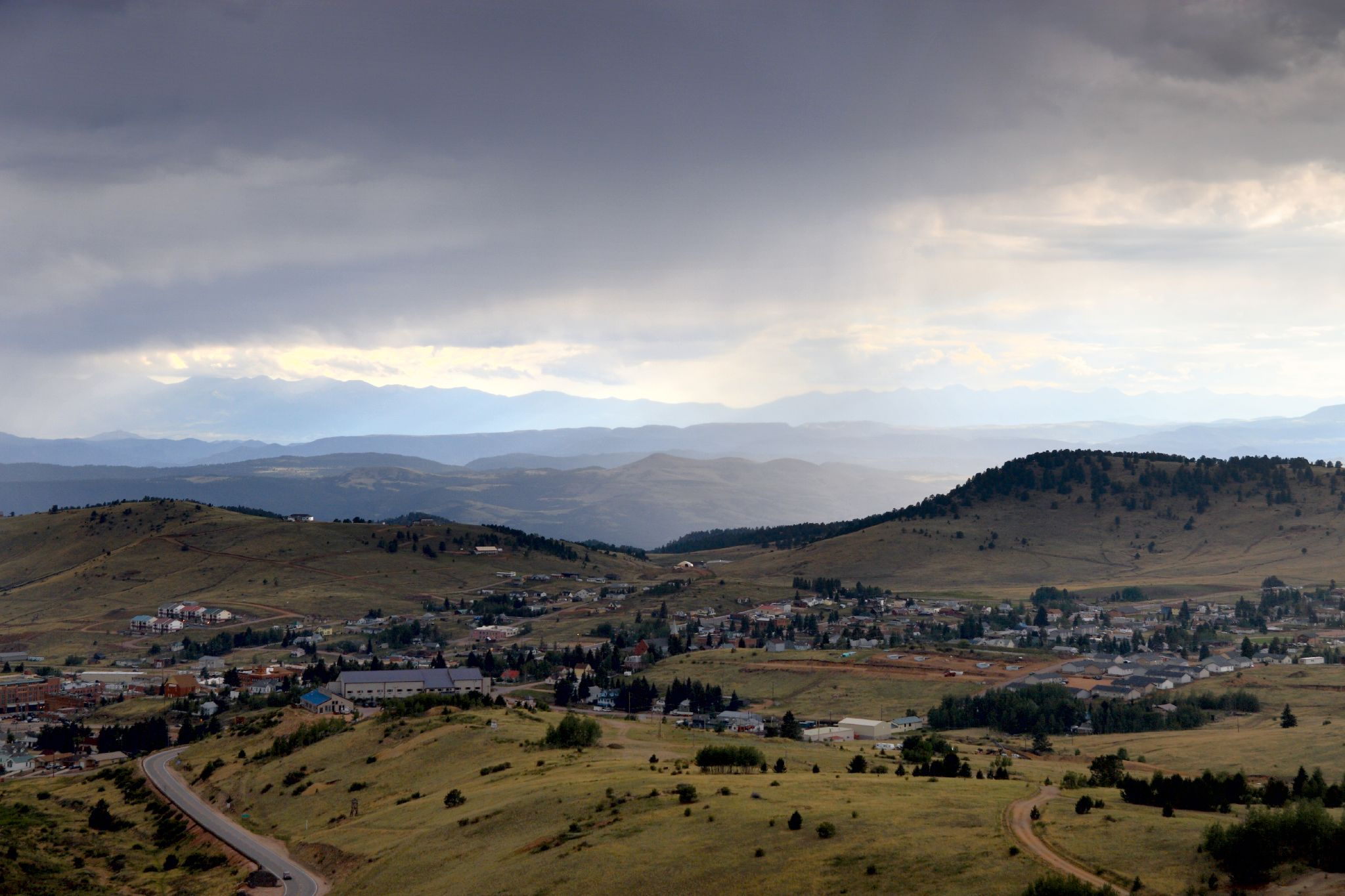 Overlooking Cripple Creek, Colorado, USA